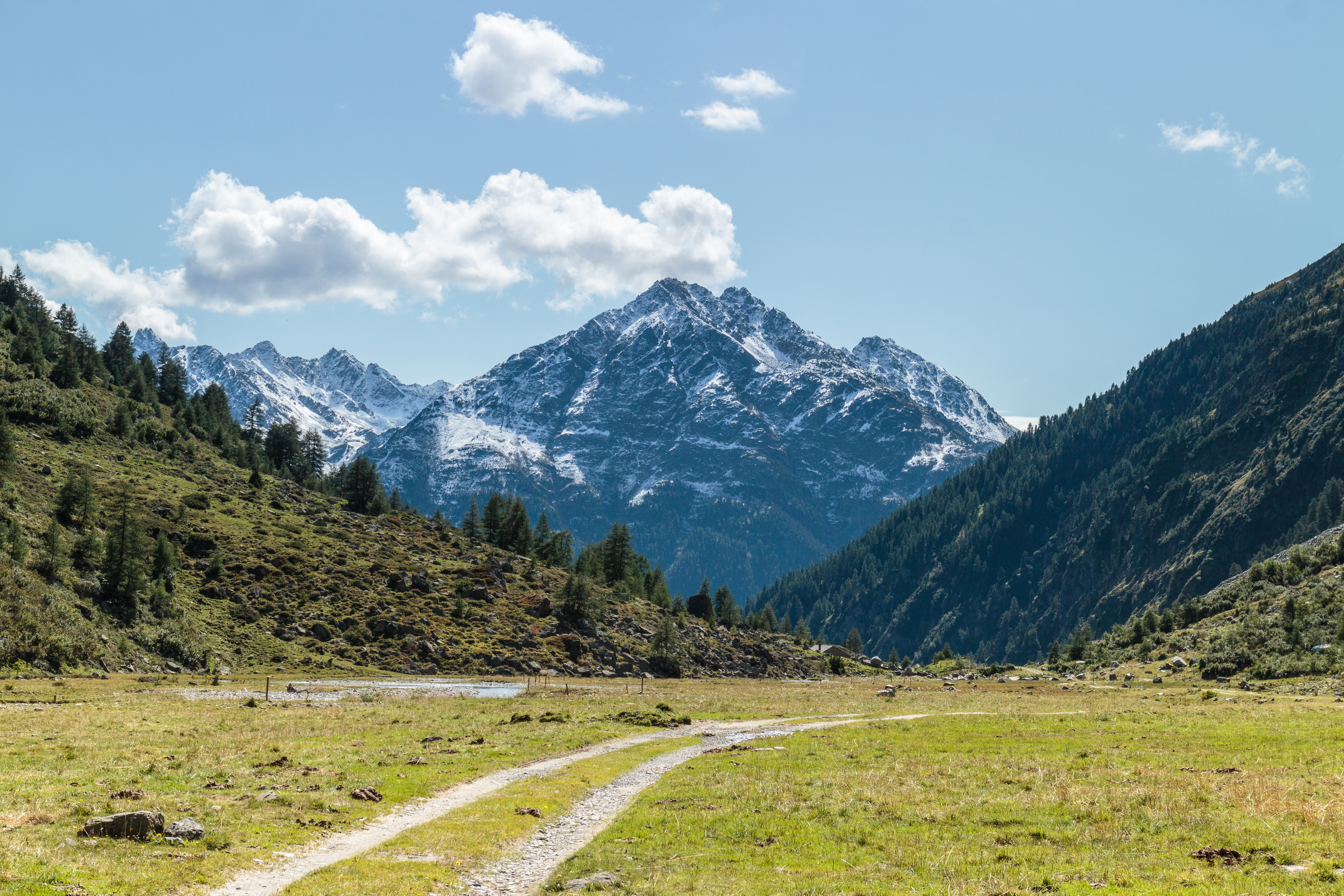 Mountain tour from Lavin through Val Lavinuoz to Alp d'Immez (2025m.) View of the mountains towards Lavin.